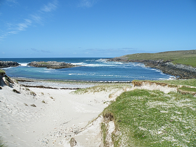 Bàgh Scolpaig A blow-out has breached the dunes at the head of the bay, offering a sandy view to the beach and Eilean Baile Bharcais. Rubha Ghriminish is in the distance at right.